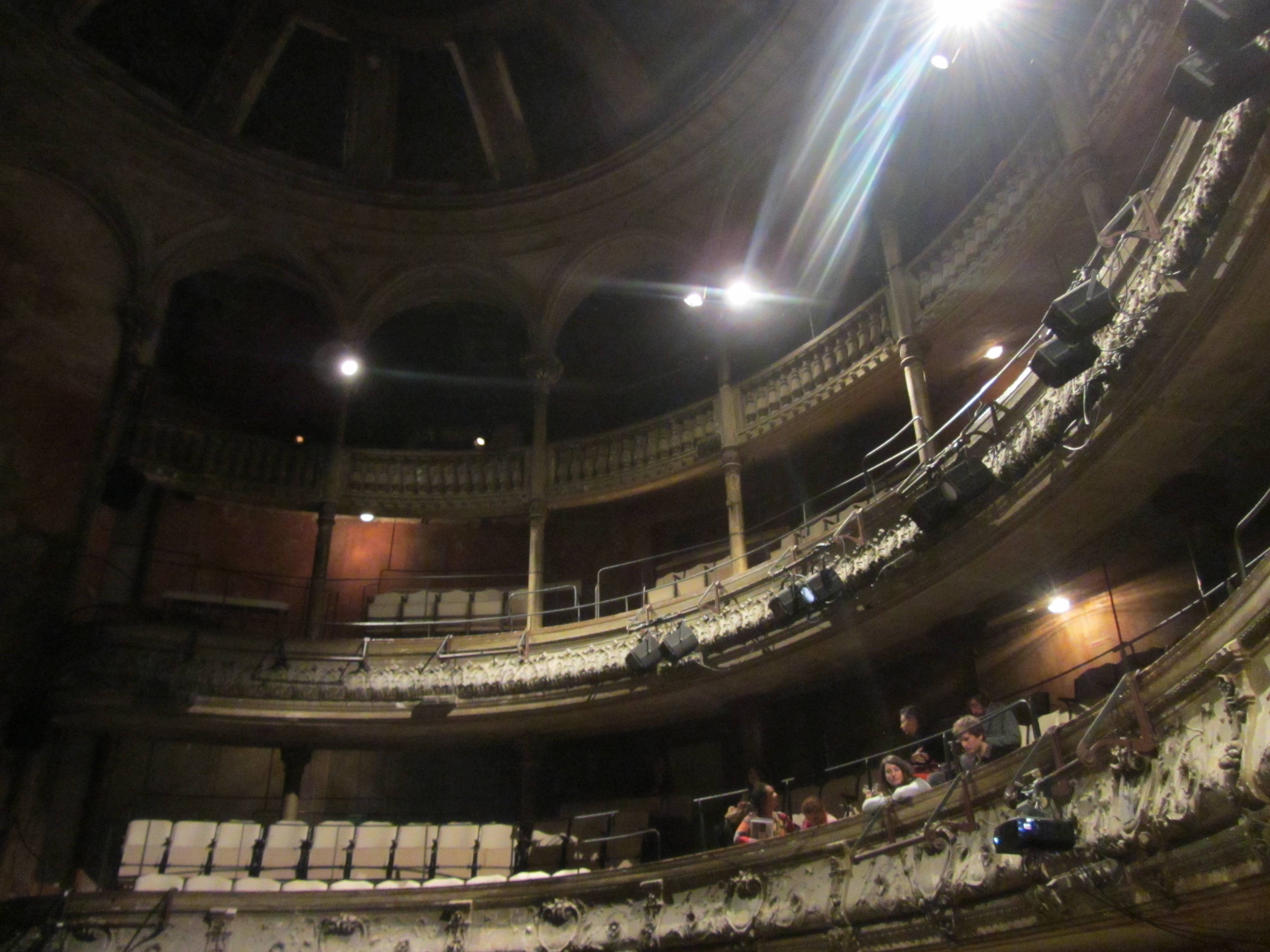 This document was produced using the Canon PowerShot SX230 HS lent by Wikimedia France.